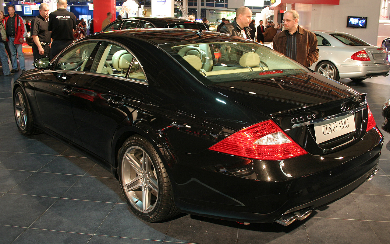 Mercedes-Benz CLS 63 AMG at Helsinki Motor Show 2006